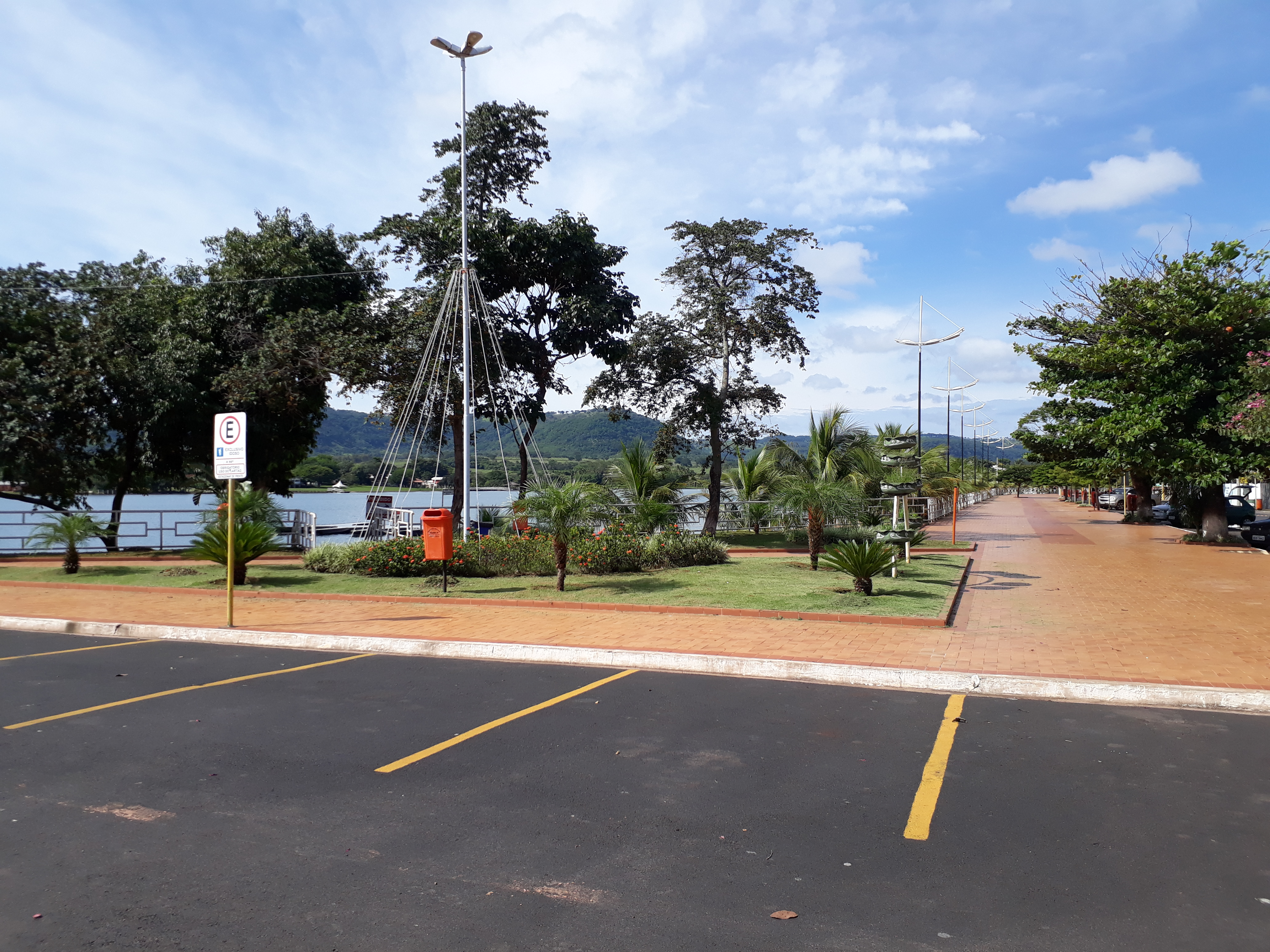 Boardwalk of the Artificial Beach of Rifaina, state of São Paulo